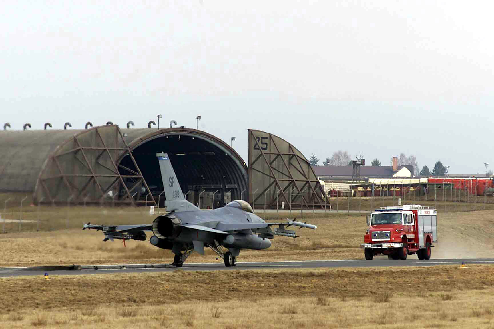 An F-16CJ Fighting Falcon assigned to the 23rd Fighter Squadron (FS), 52nd Fighter Wing (FW), Spangdahlem Air Base (AB), Germany, certifies the barrier cable for the temporary runway, while the 52nd Civil Engineer Squadron's (CES) Fire Department stands by.